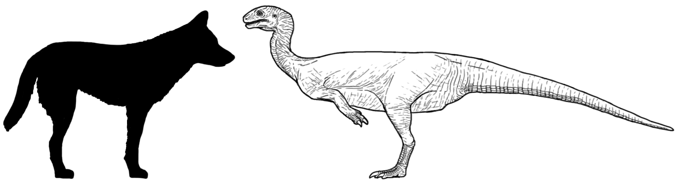 Chilesaurus diagram by Tom Parker.